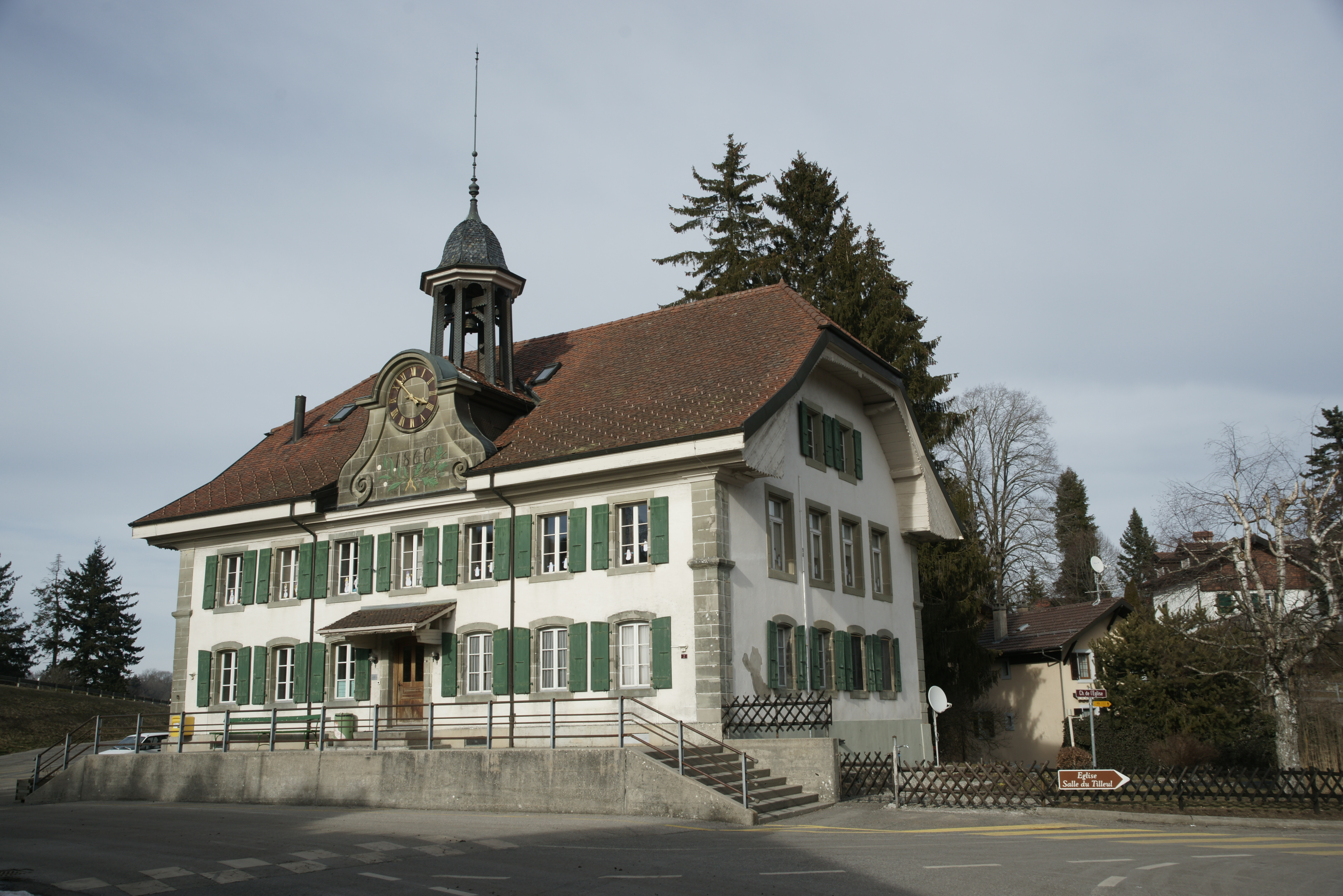 Elementary school of Montpreveyres